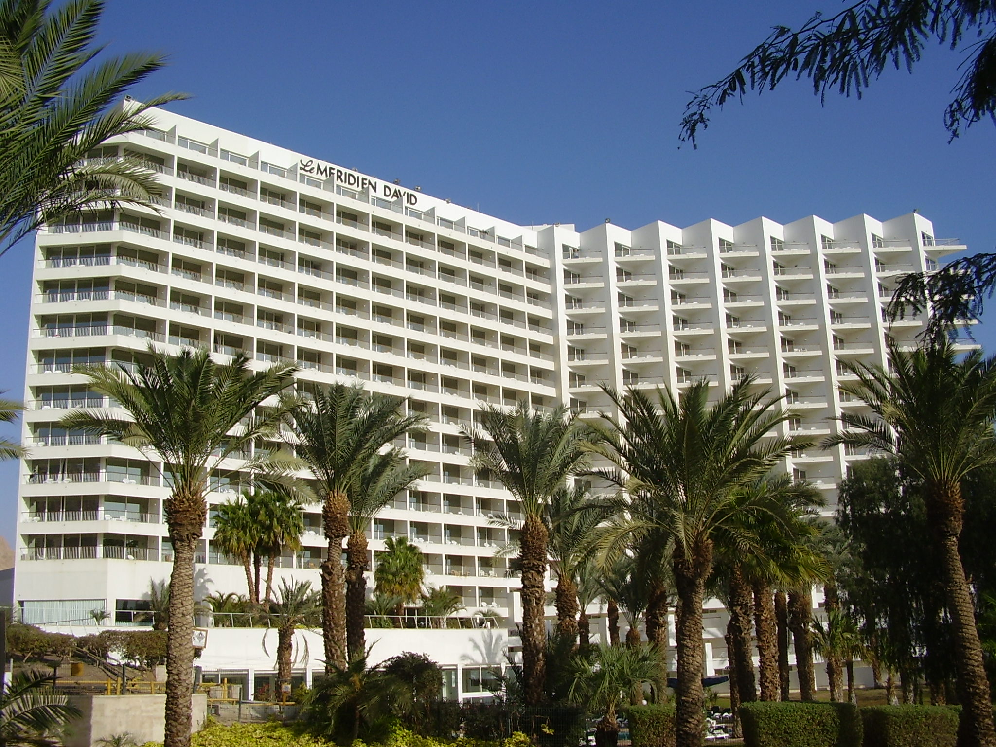 Le Meridian Hotel, Dead Sea